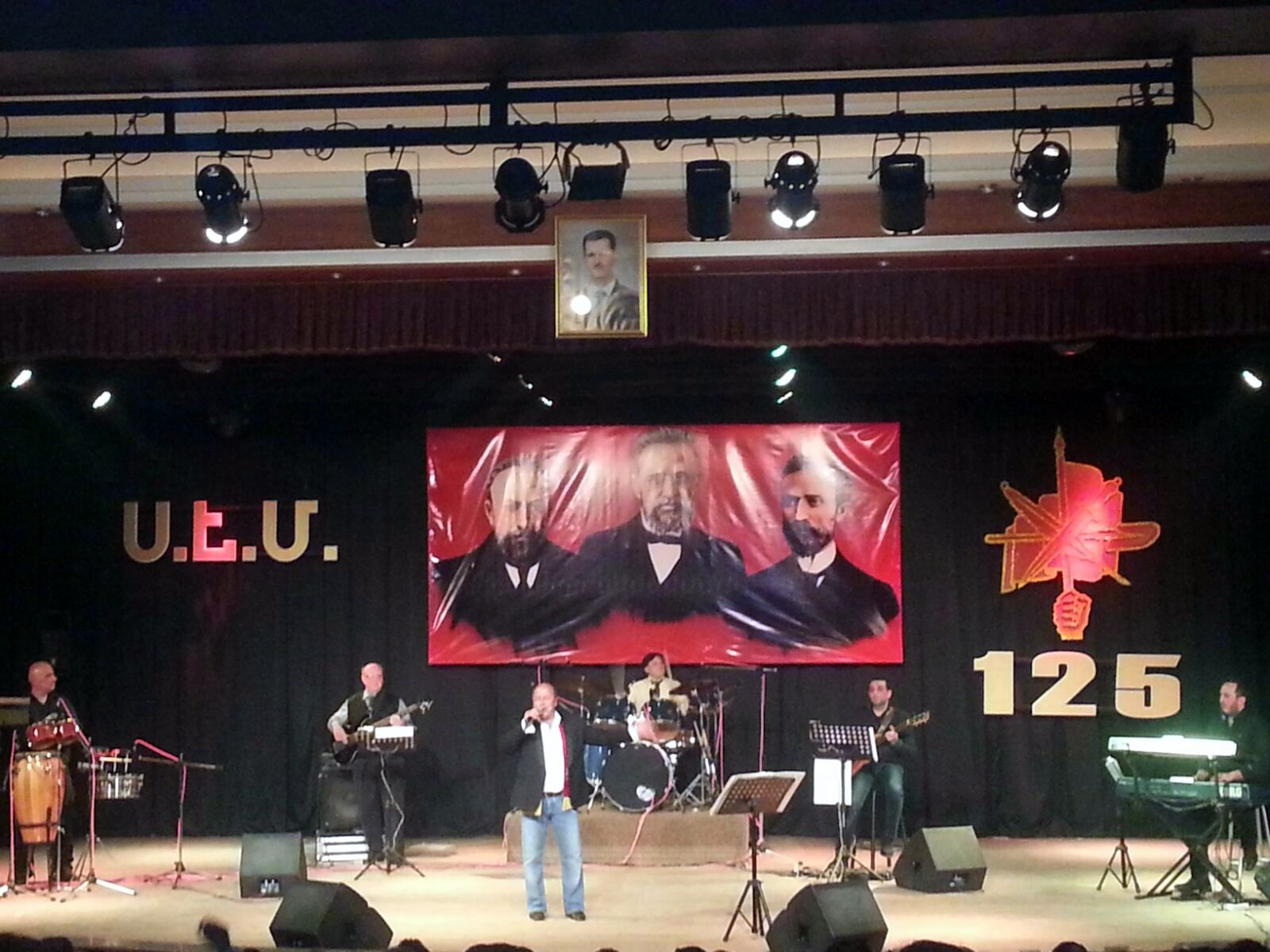 Karnig Sarkissian in Aleppo, 11 December 2015.